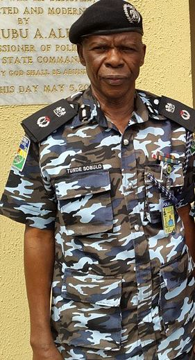 Deputy Commissioner of Police Lagos State, at Ceremonial for Rank to CP (2014).